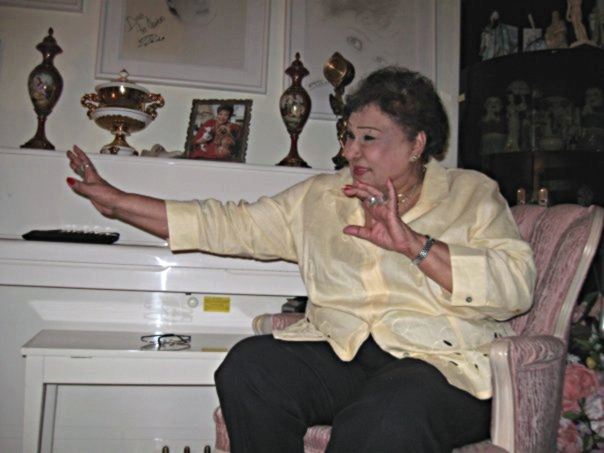 Olga Guillot in her condo in Miami Beach, Florida